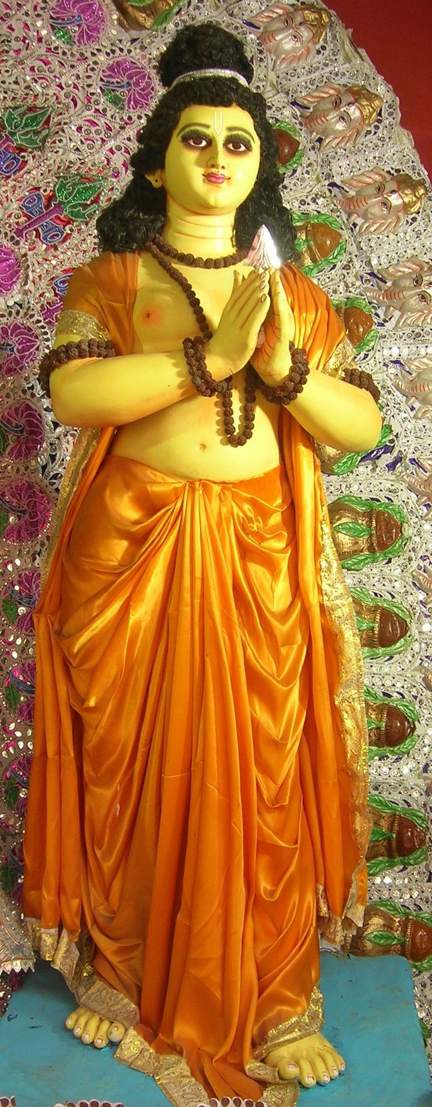 Lakshmana, from a depiction of Ram's Akalbodhan from Krittivasi Ramayana at Venus Club, Kidderpore, Kolkata, 2010.